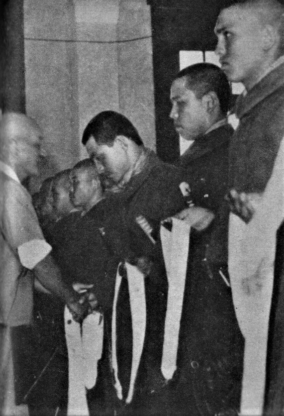 kamikaze unit Itiseitai corps pilot